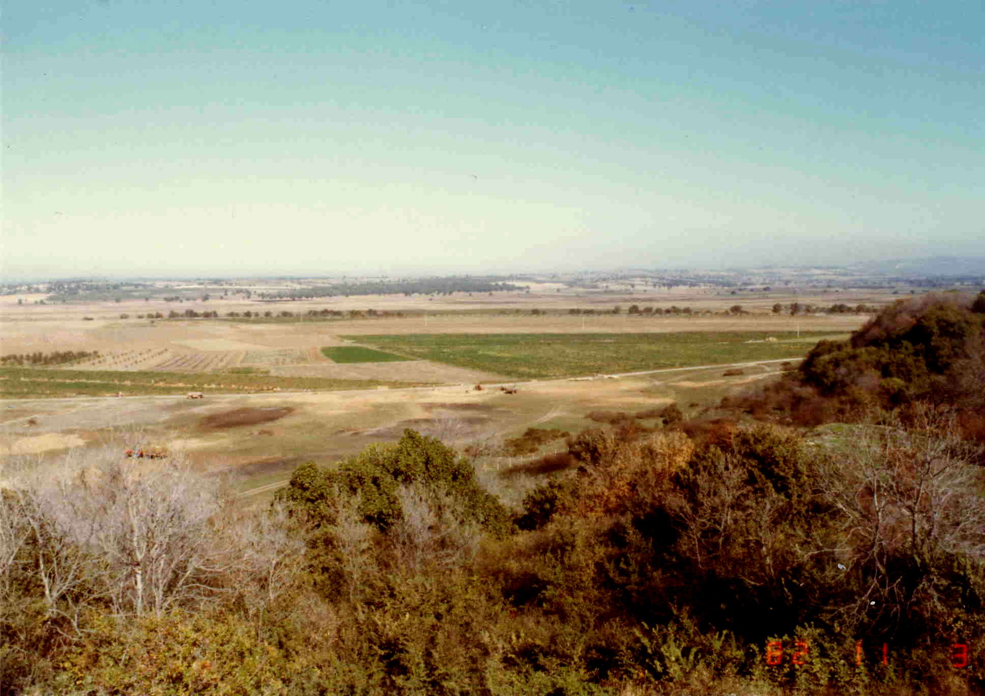 On this Plain once camped the Greek armies of Agamemnon which besieged the city of Troy where the beautiful Helen, wife of King Menelaus, was being held prisoner by Paris.Salalah to Somerset 1982 : Turkey